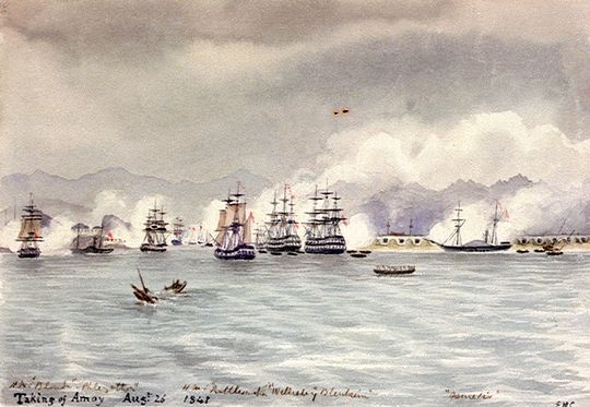 Taking of Amoy, 26 August 1841.